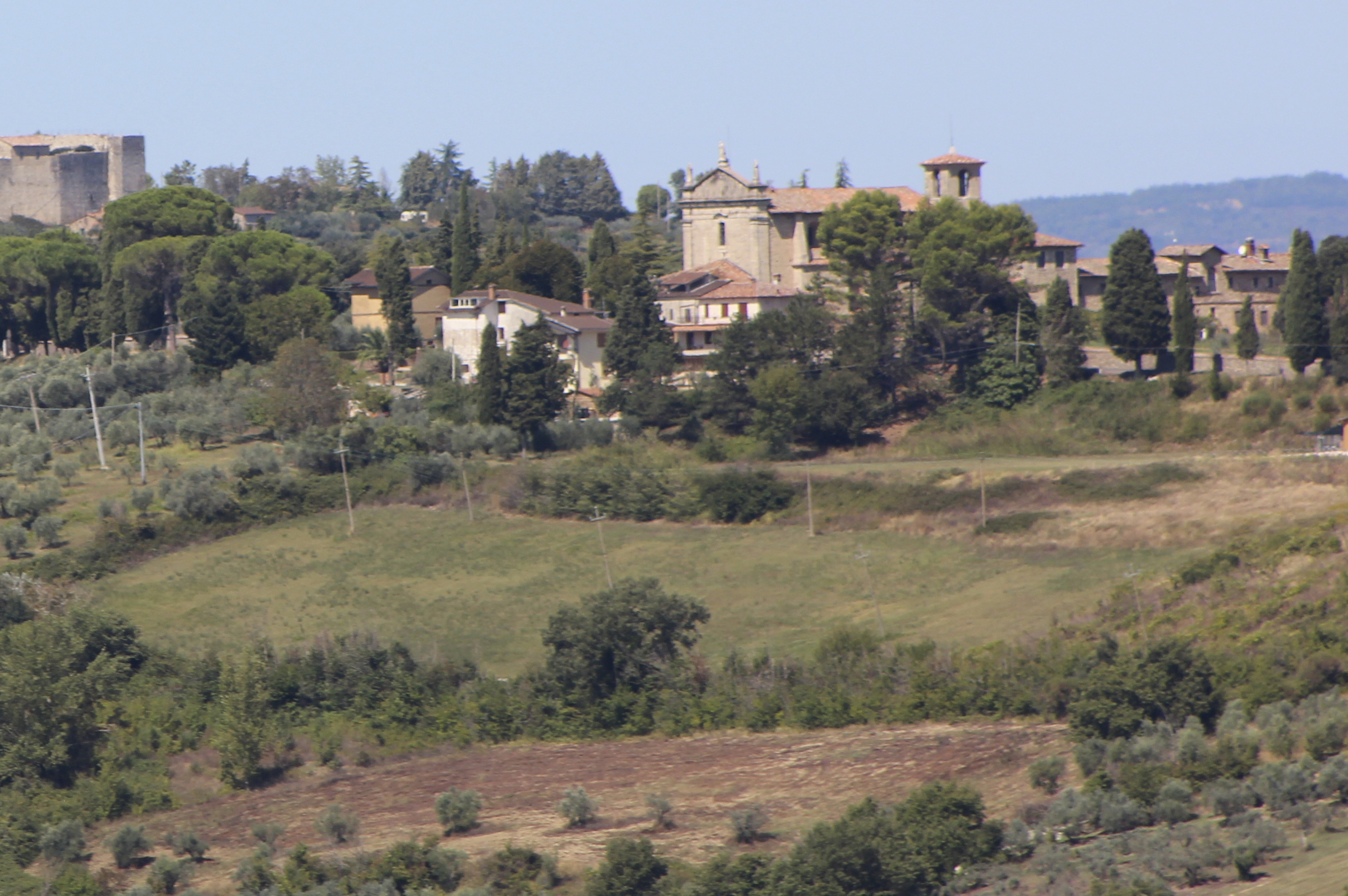 Spineta, hamlet of Fratta Todina, Province of Perugia, Umbria, Italy